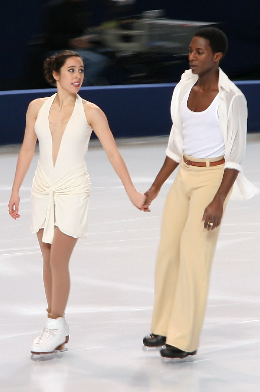 Kharis Ralph and Asher Hill at the 2010 Trophée Eric Bompard